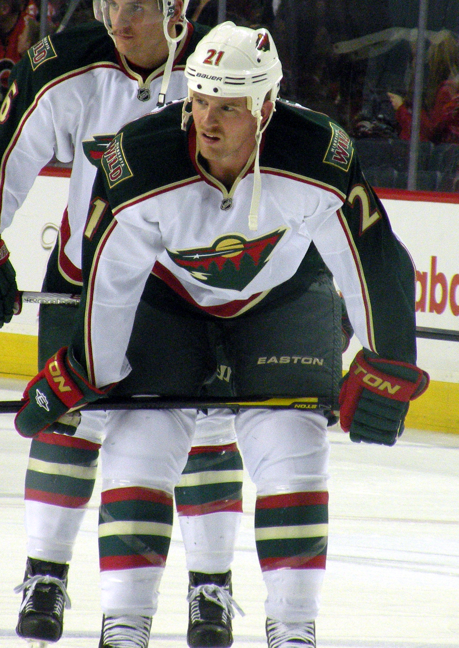 Minnesota Wild forward Kyle Brodziak prior to a National Hockey League game against the Calgary Flames, in Calgary.